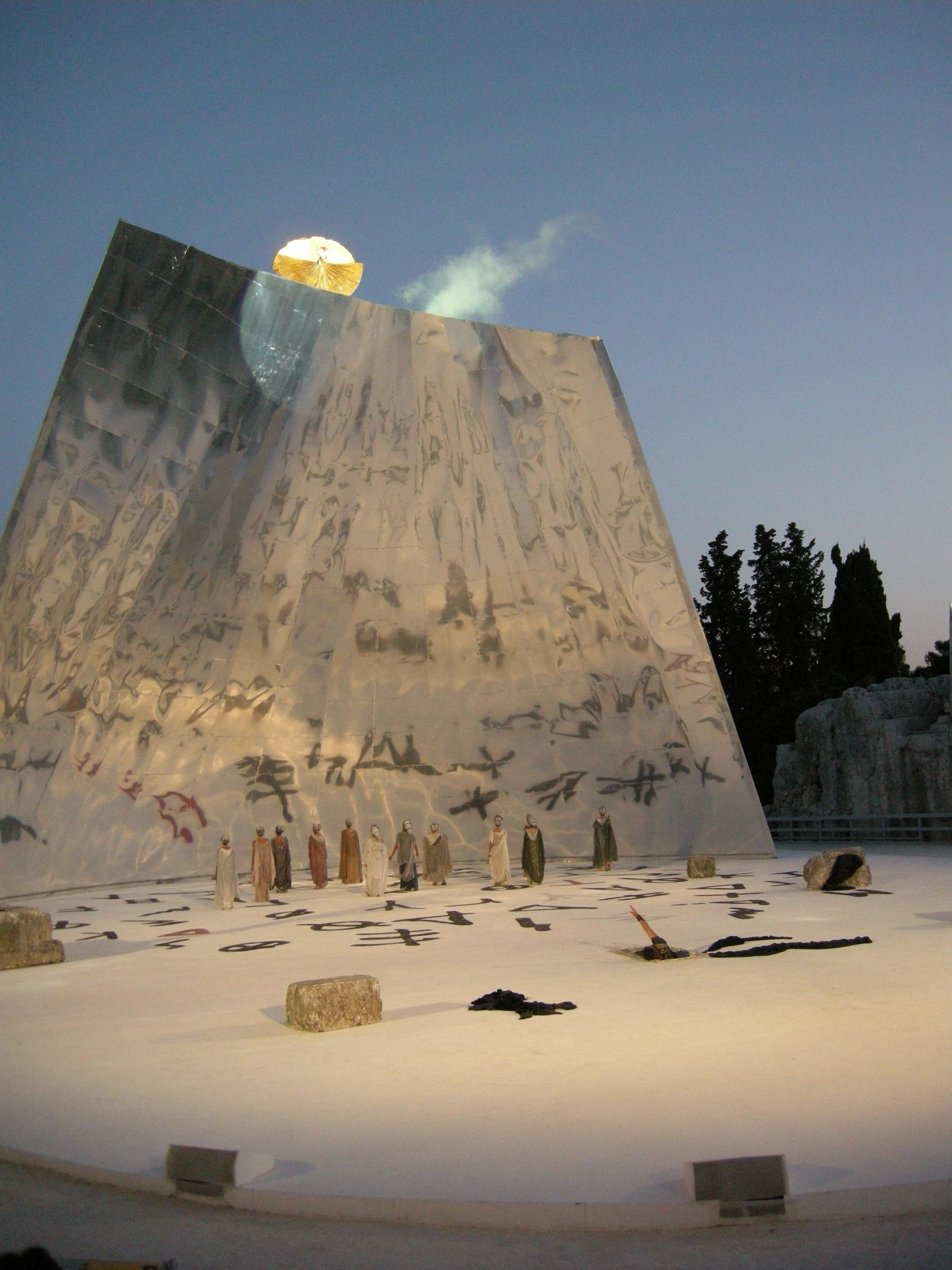 Euripides' Medea directed by Krzysztof Zanussi, performed in Siracuse, Italy (2009)